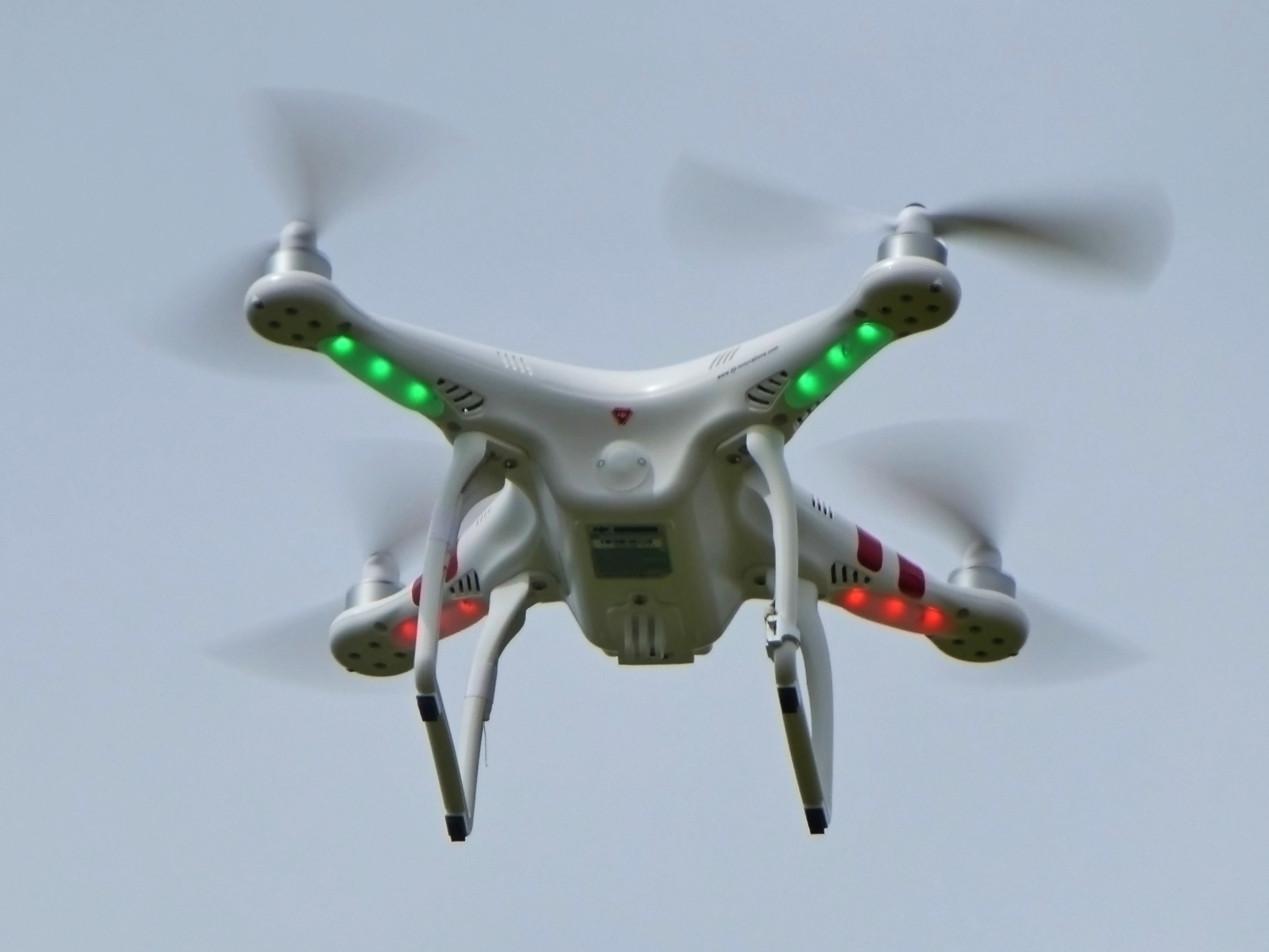 DJI Phantom 1, rear (pilot) view